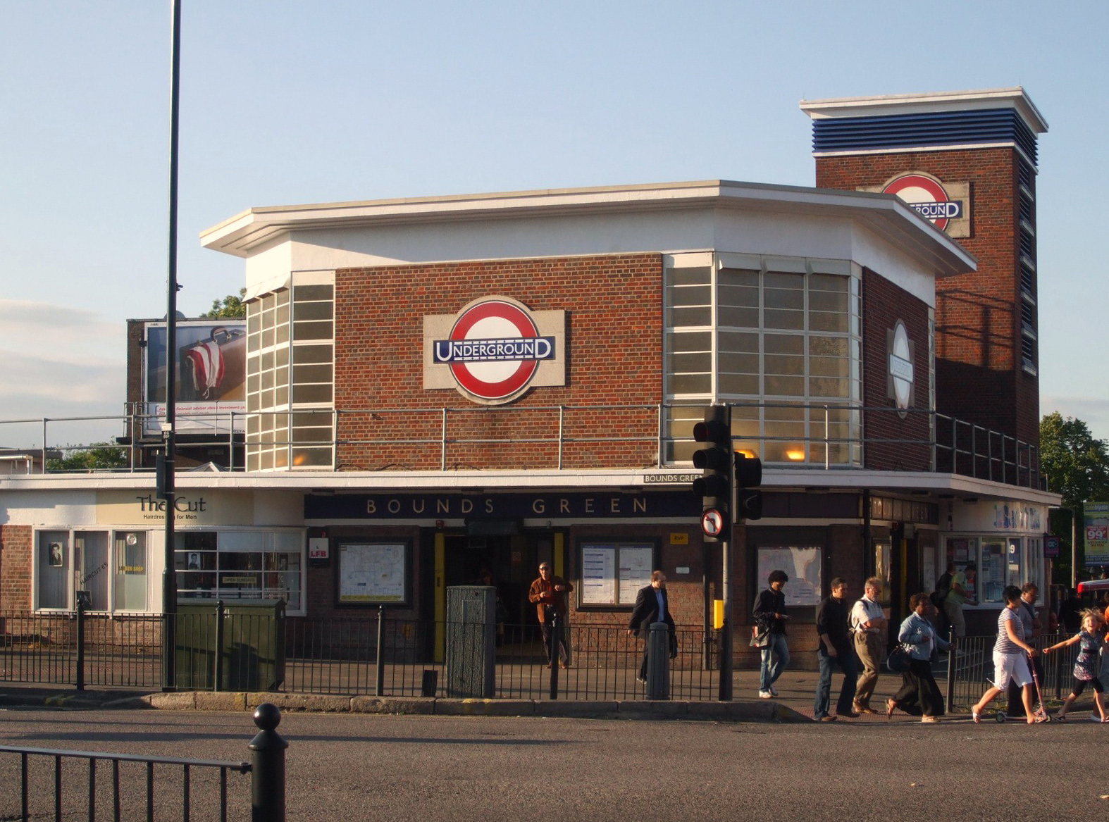 Bounds Green tube station building